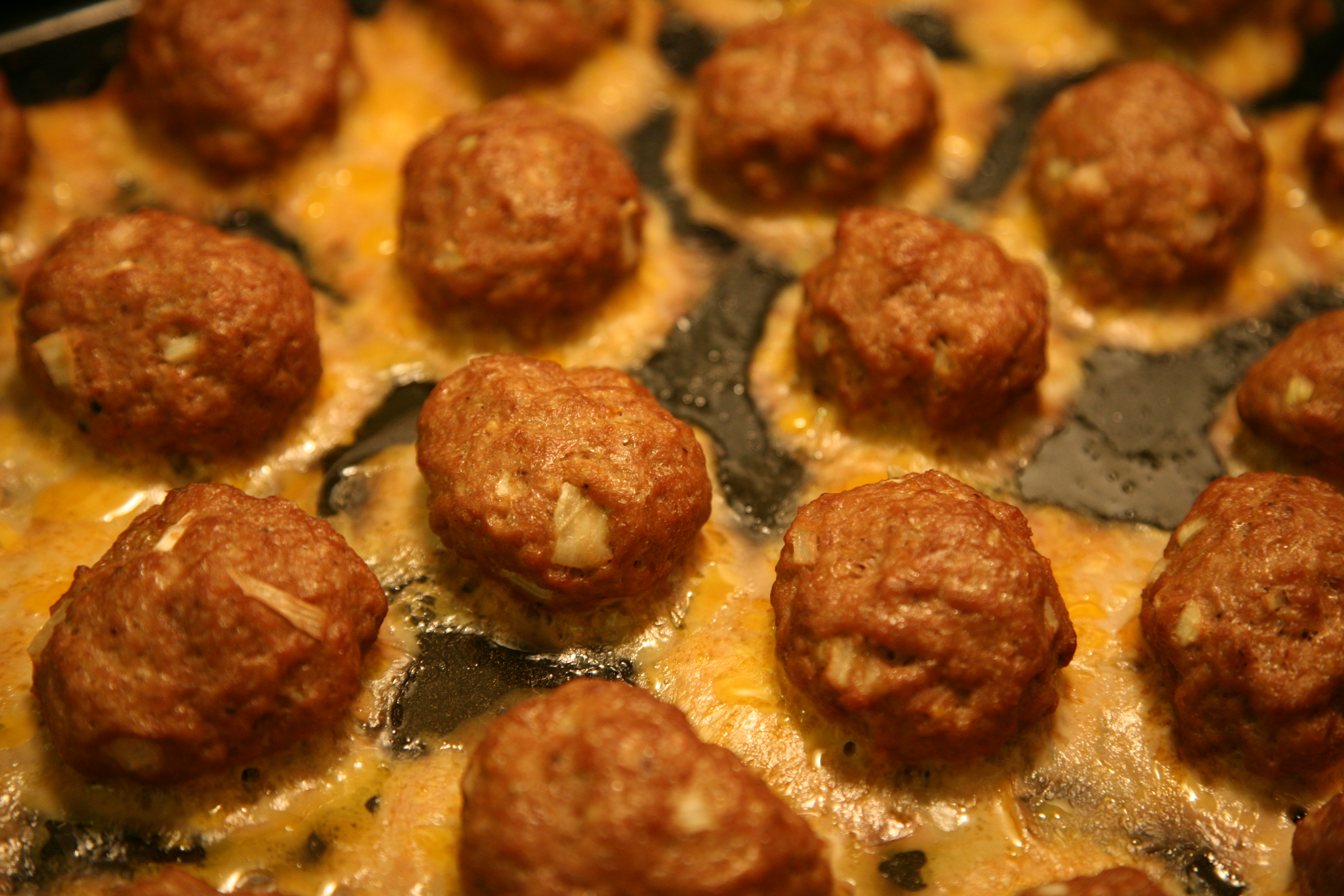 Meatballs in the oven